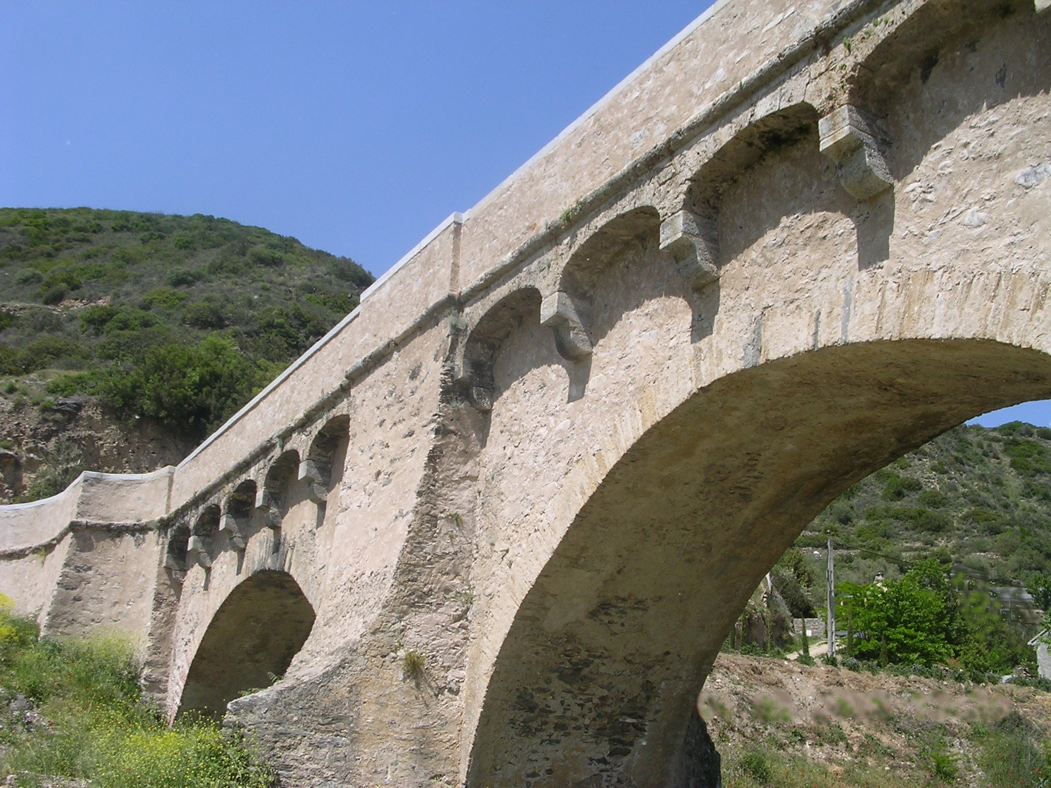 It's the famous bridge of Ponte Novu, in 2008. Arches of the parapet. The parapet relies on the smaller elliptic sloped arches built in limestone. Corsu: In tofu, l'arcature à fornu portanu u parapettu.